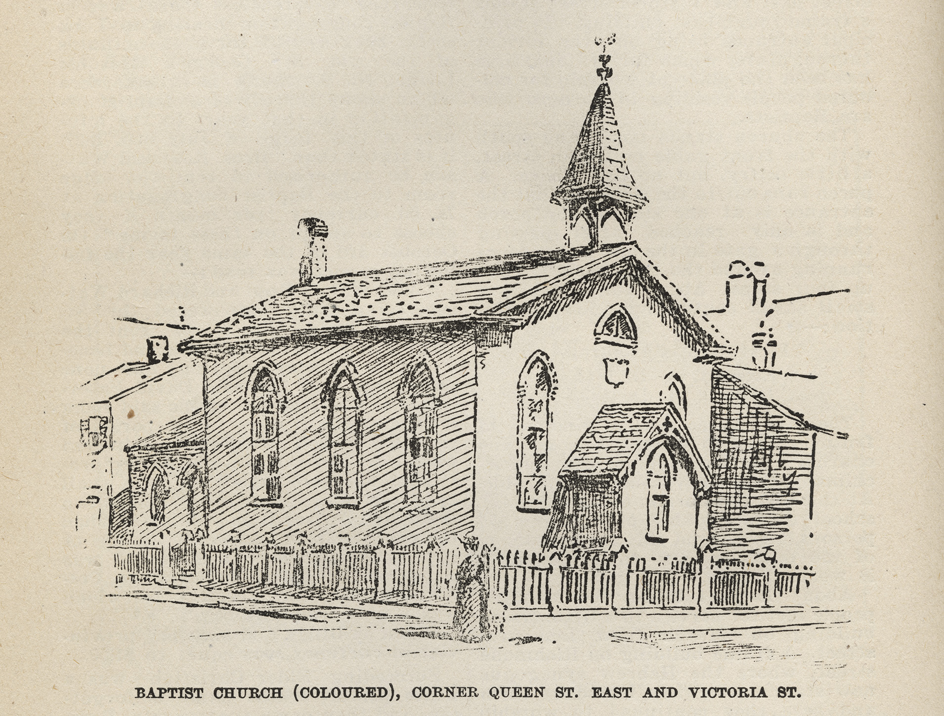 Illustration of Black church in Toronto